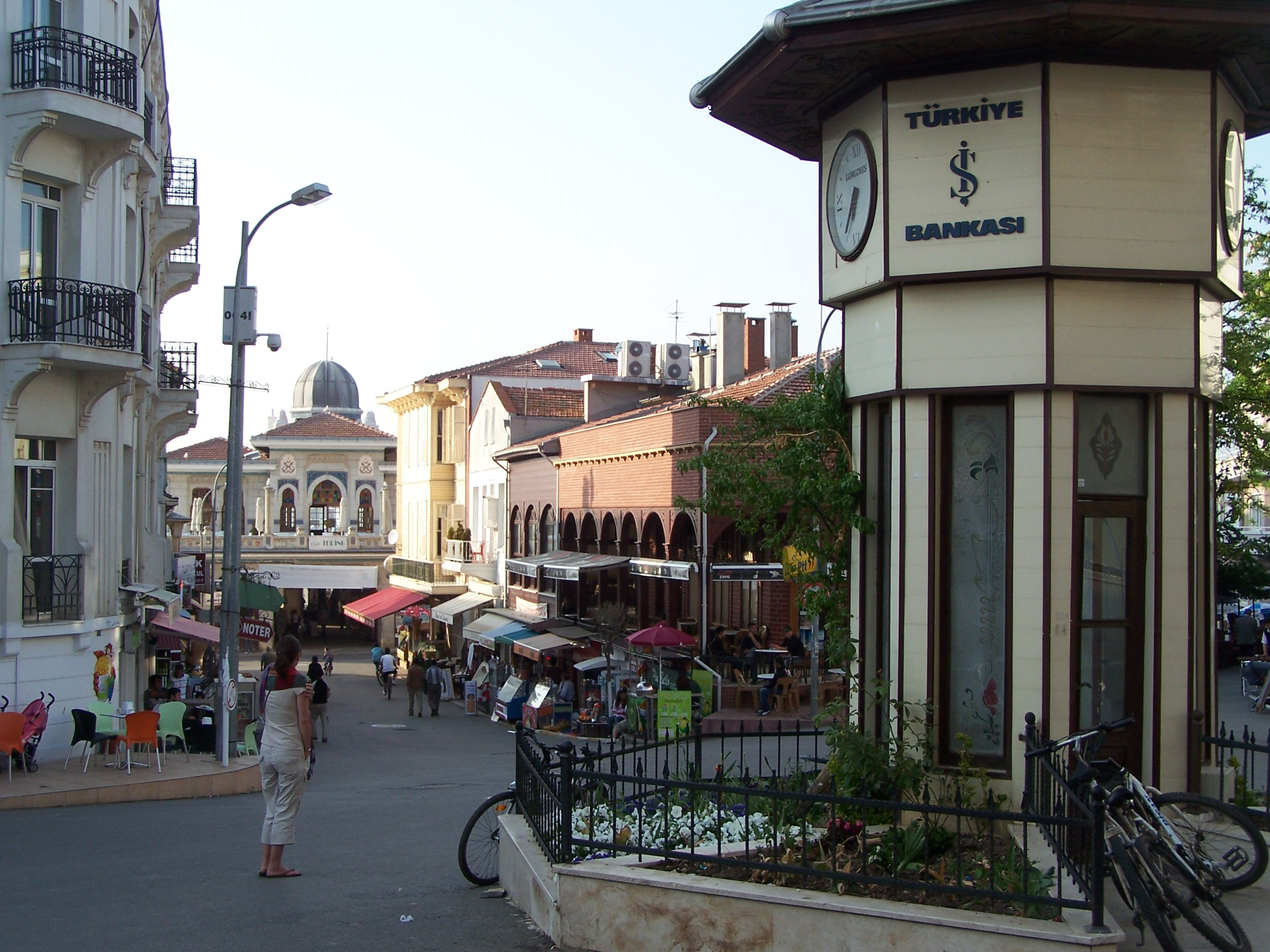 Istanbul